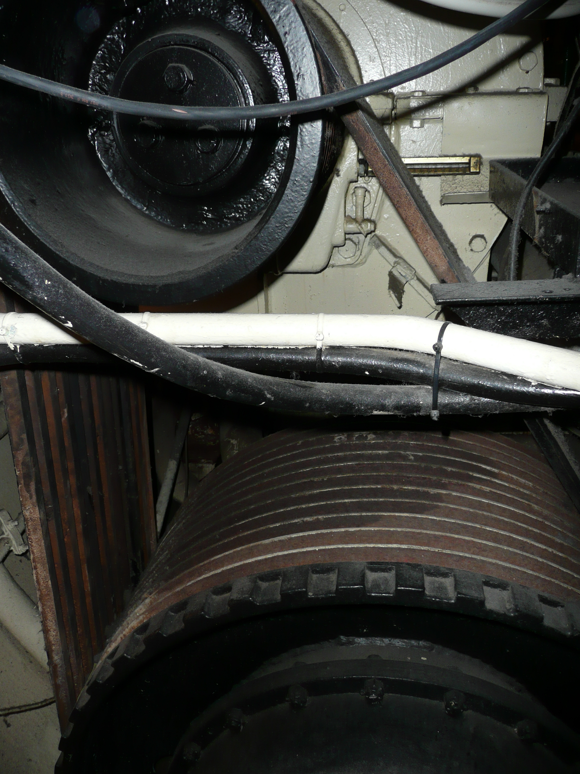 Belt drive of a silent running electric engine of the german type XXI submarine U 2540 / Wilhelm Bauer.